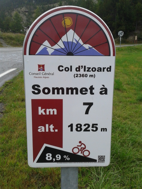 Mountain pass cycling milestone at the Col d'Izoard in France ascending from Guillestre